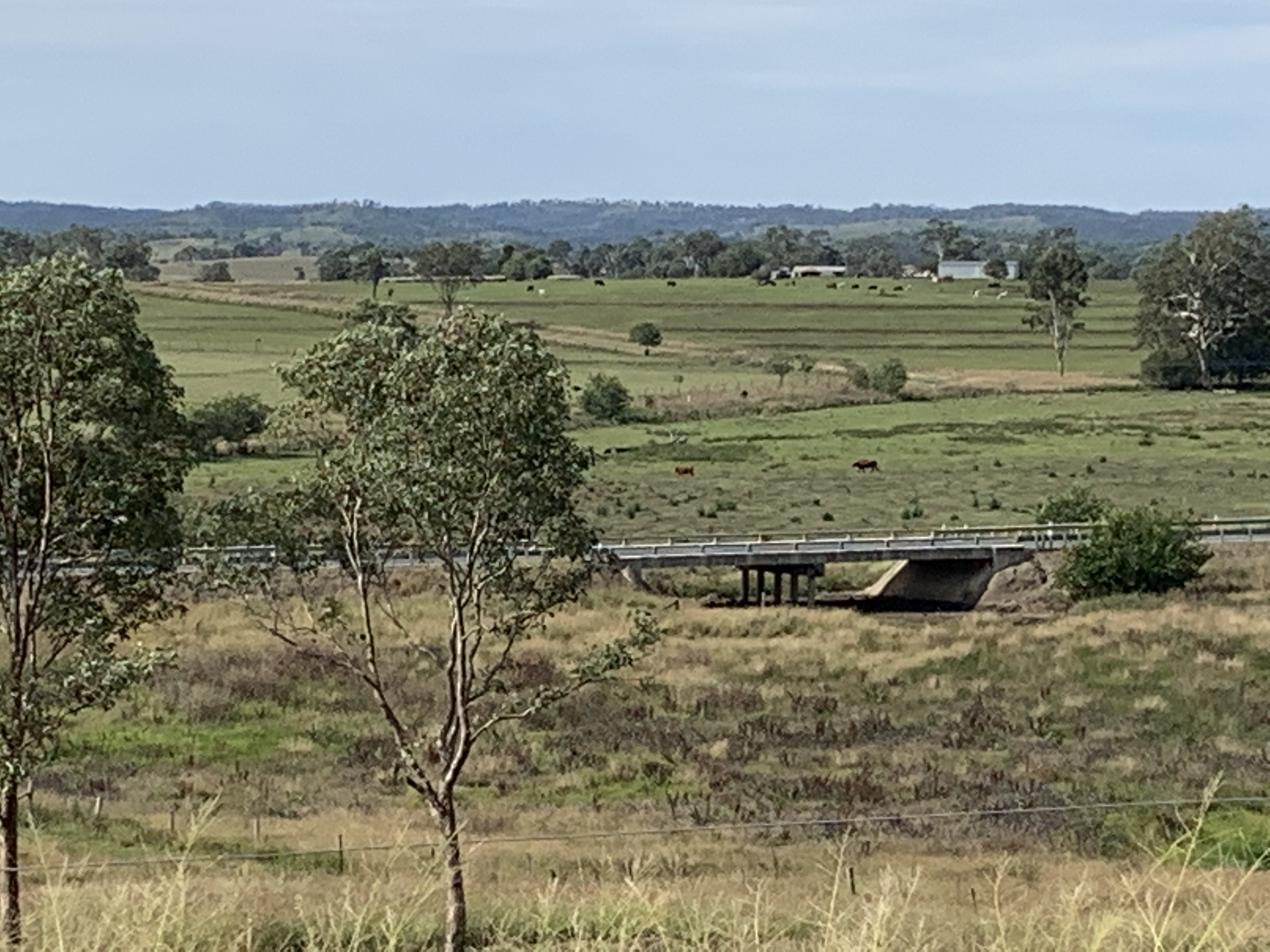 Rural landscape of Tansey, Burnett Highway is visible